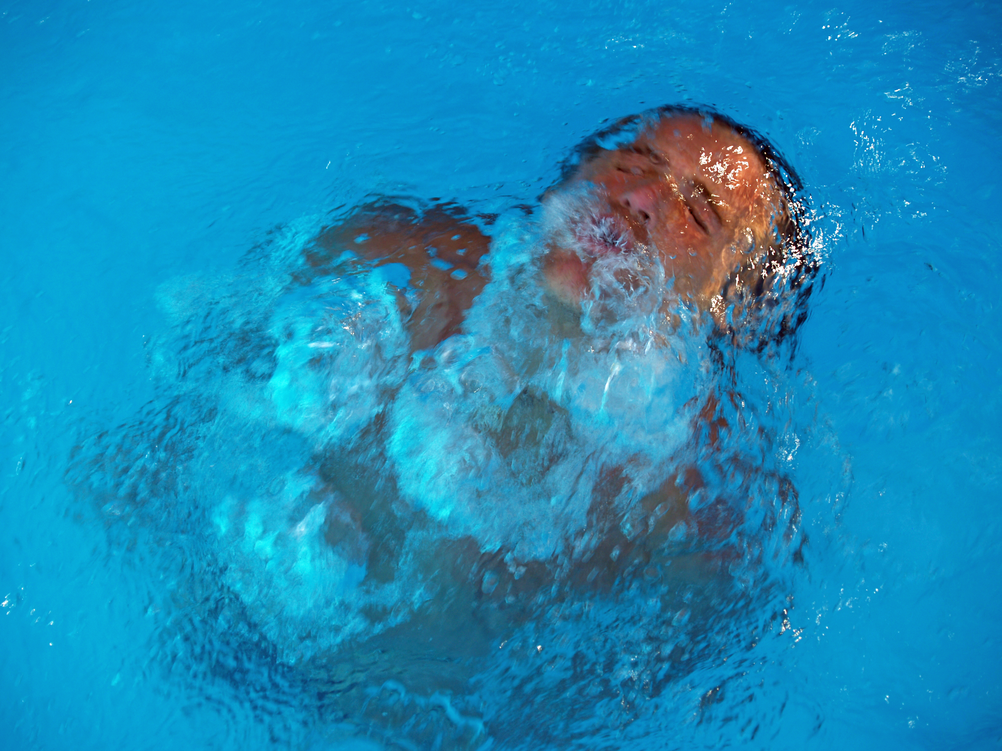 Air bubbles in a pool as a man surfaces for air